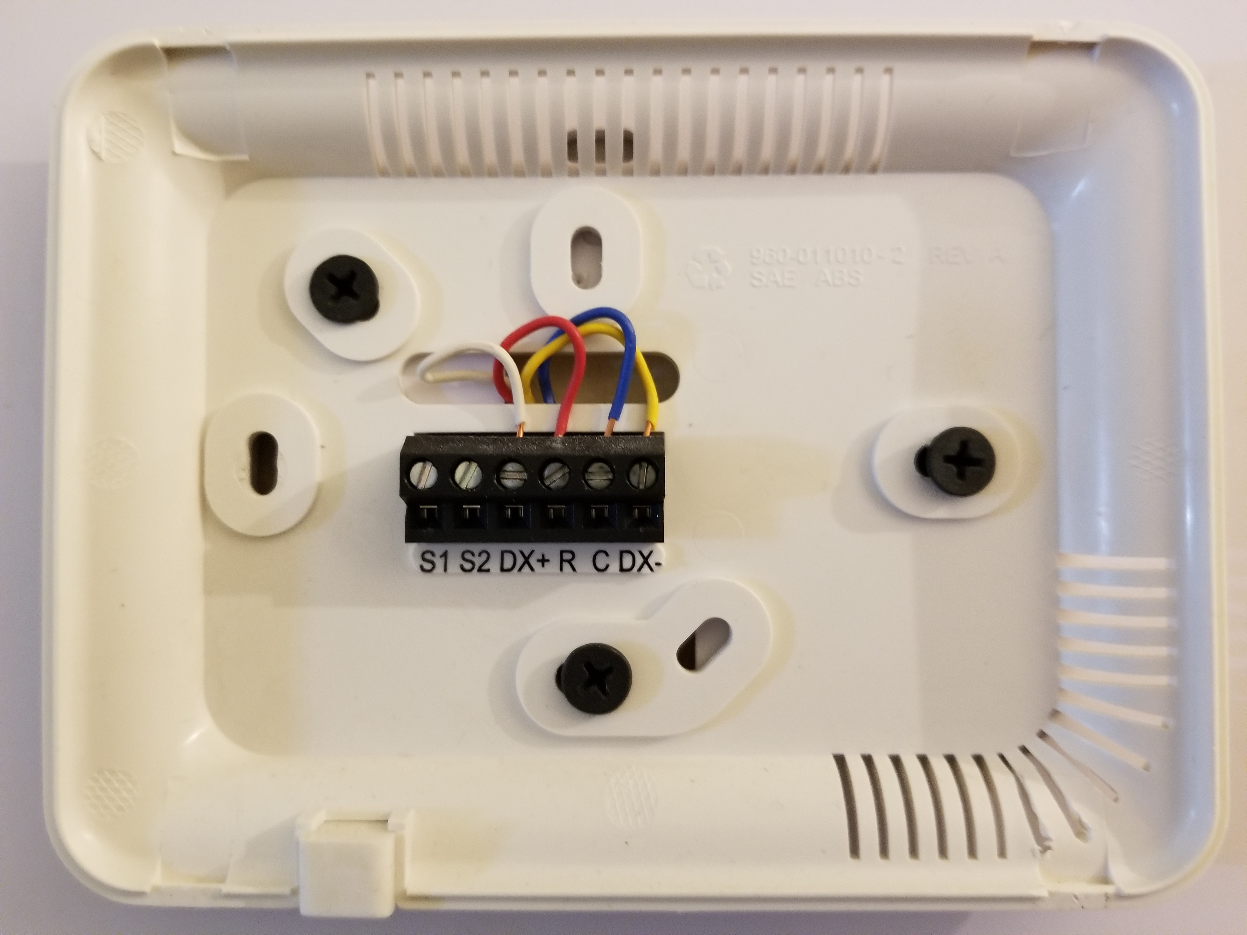 Communicating Systems require just four wires – two power wires for heating and cooling and two for communication between components. Nest is NOT compatible with these types of systems.